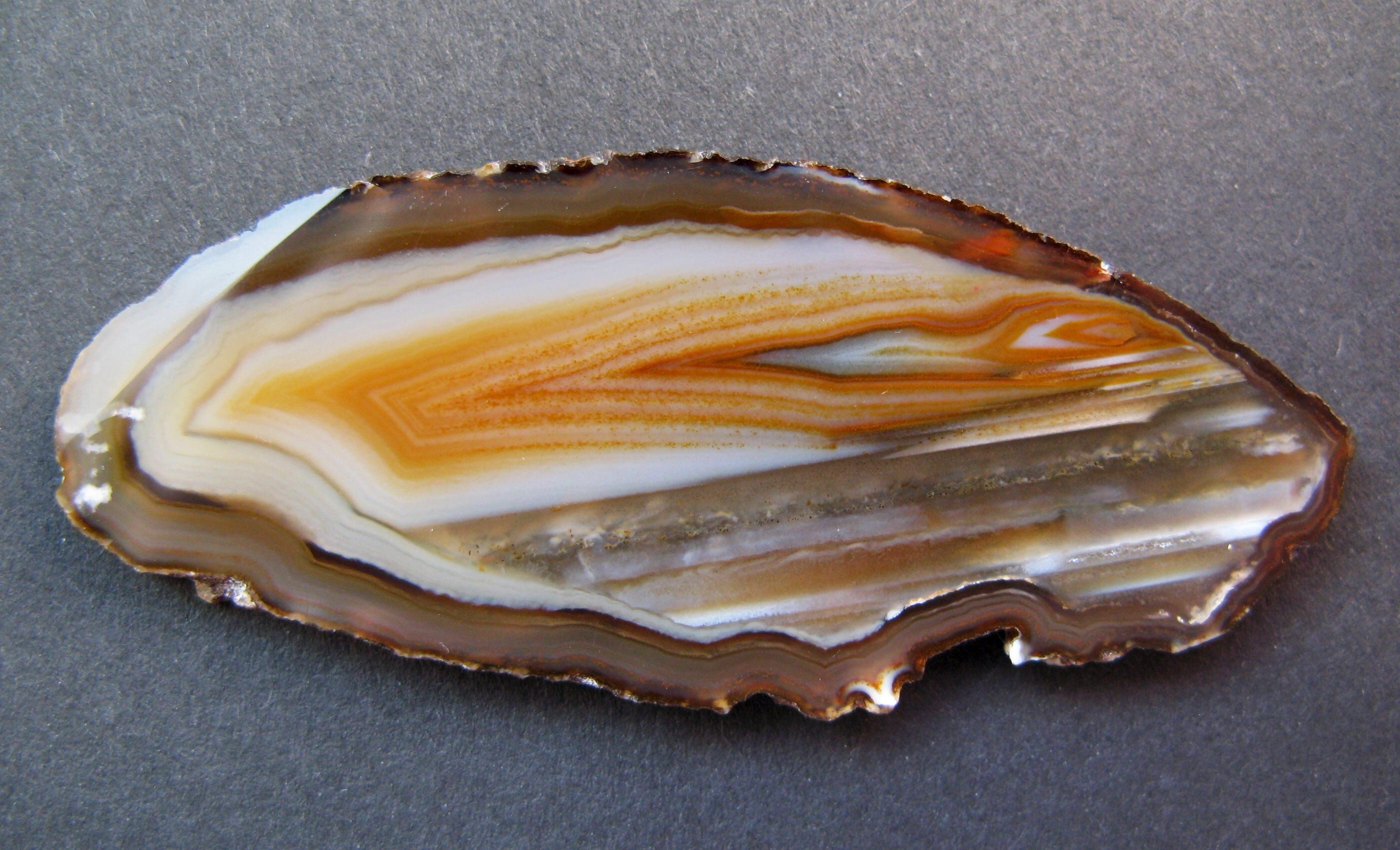 Quartz, variety Agate (redbrown-white banded) - polished plate